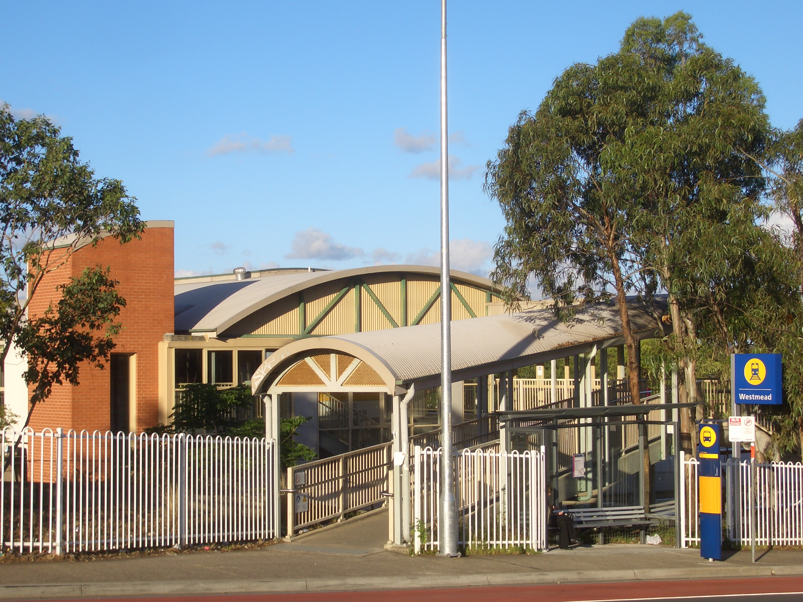 Westmead Railway Station